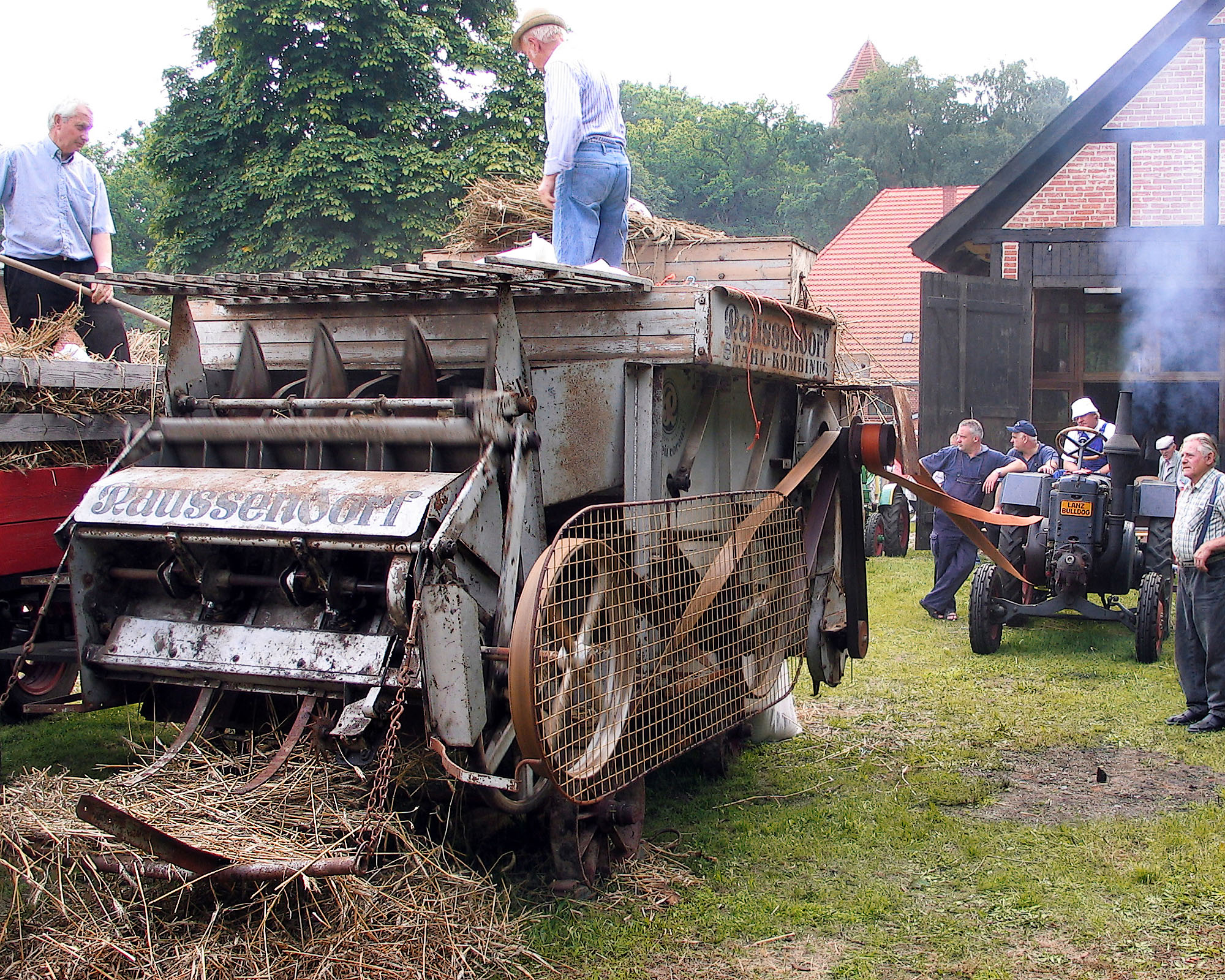 Old Raussendorf threshing machine driven by a Lanz Bulldog at Kuchelmiß, northern Germany.